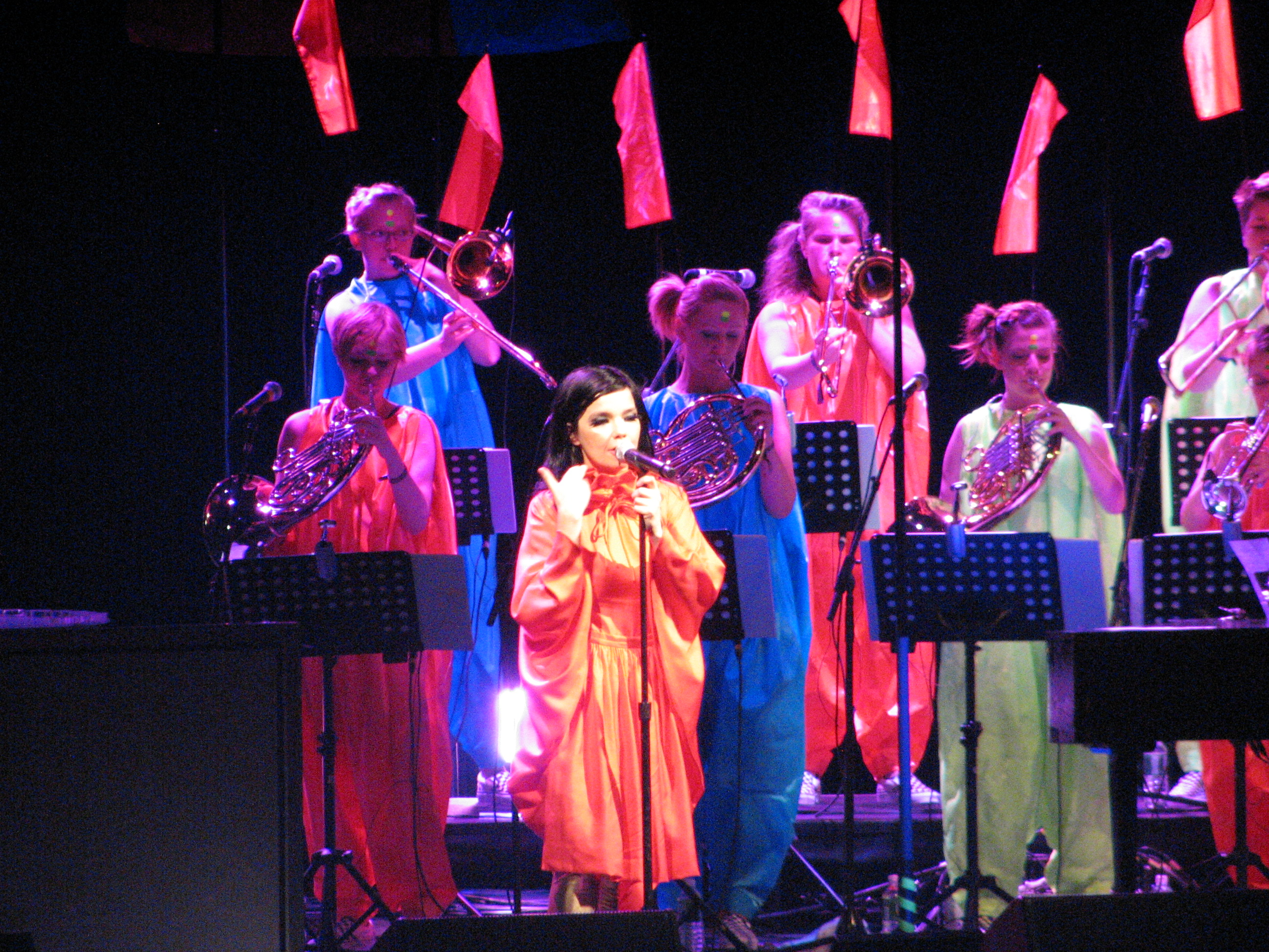 blog post